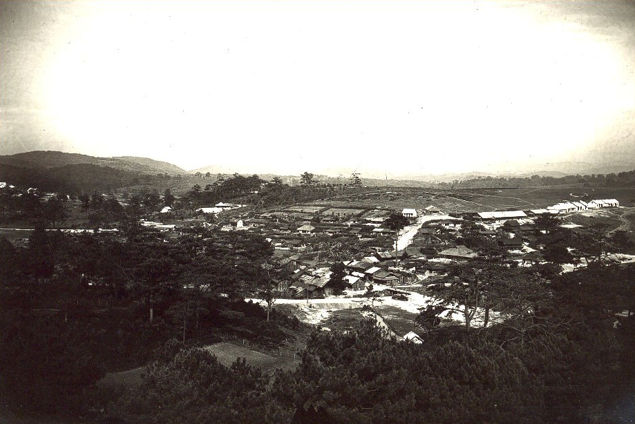 Da Lat ca. 1925